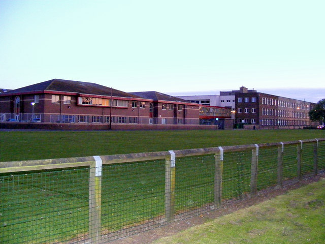 Montrose Academy Modern Wing, Montrose, Angus, Scotland shown from the school playing fields.